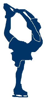 Biellman spin Source: Helena Grigar (2005)